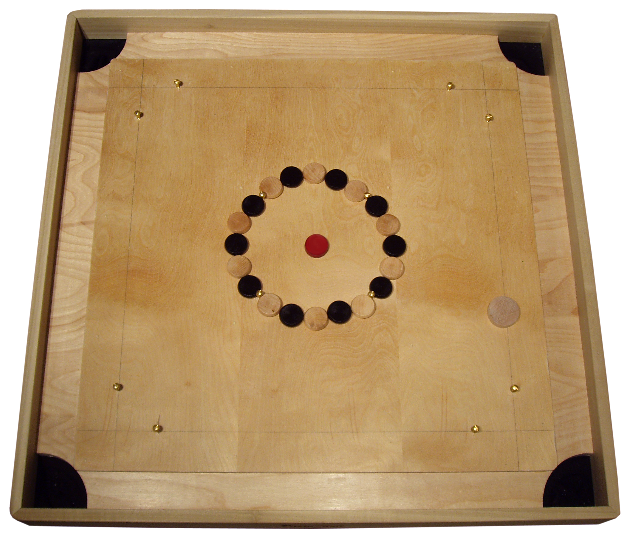 Pitchnut board built by Lee Larcheveque in November 2007. Summary Pitchnut board built by Lee Larcheveque in November 2007.